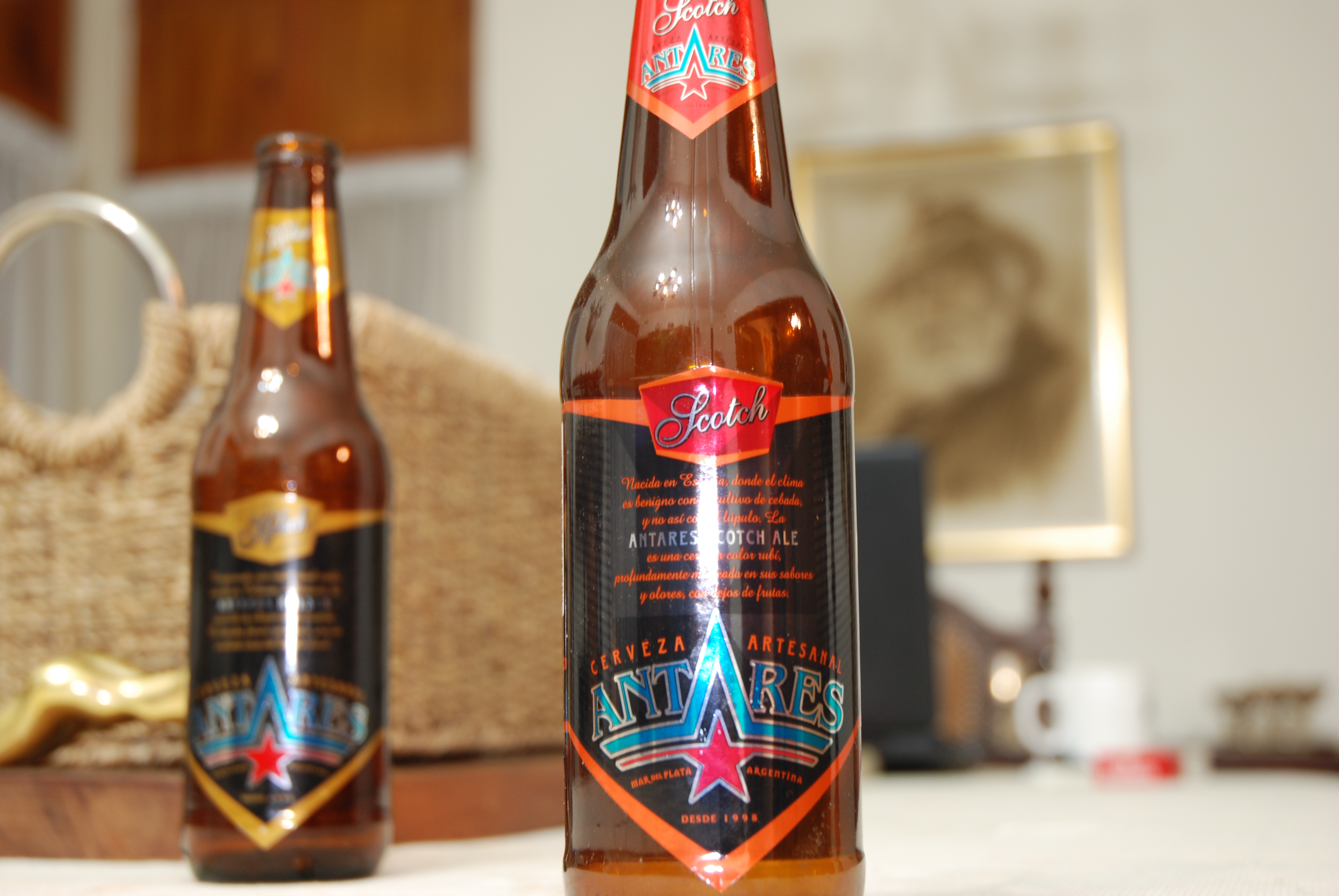 Cerveza artesanal Antares, fabricada en Mar del Plata, provincia de Buenos Aires.